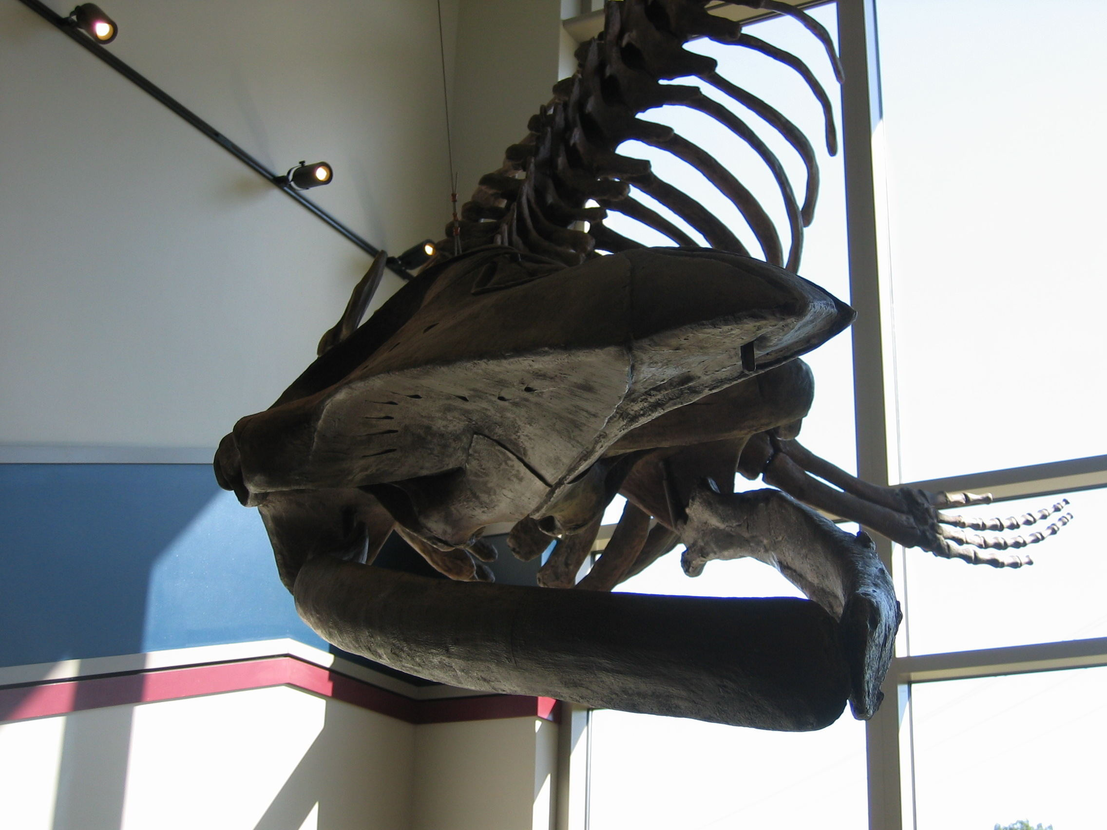 Skeletal mount of the fossil whale Eobalaenoptera in Caroline County Visitor Center (Caroline County, Virginia)